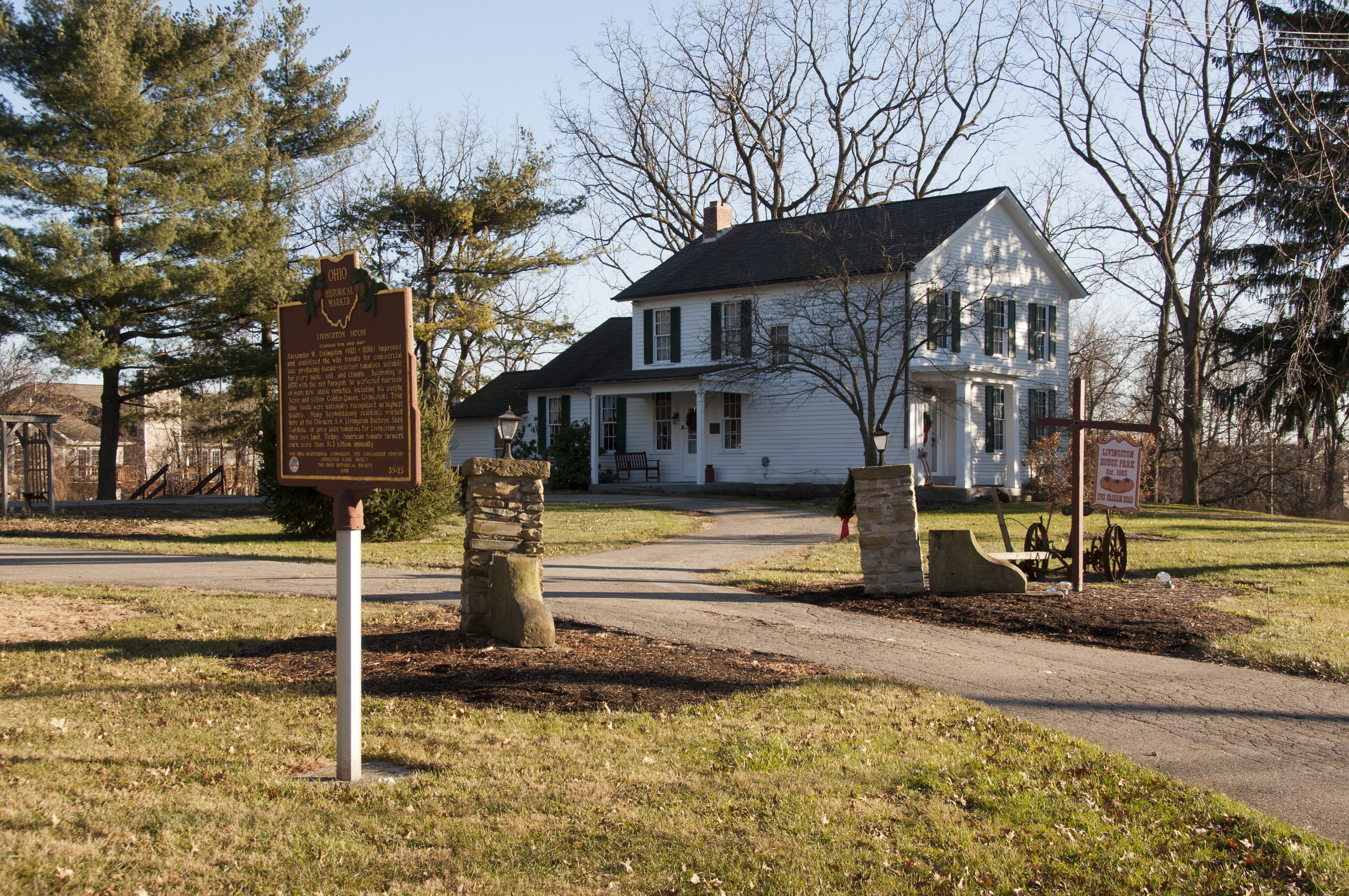 Livingston House in Reynoldsburg, Ohio is the home of Alexander Livingston who was the first to develop the tomato into a commercially stable crop.